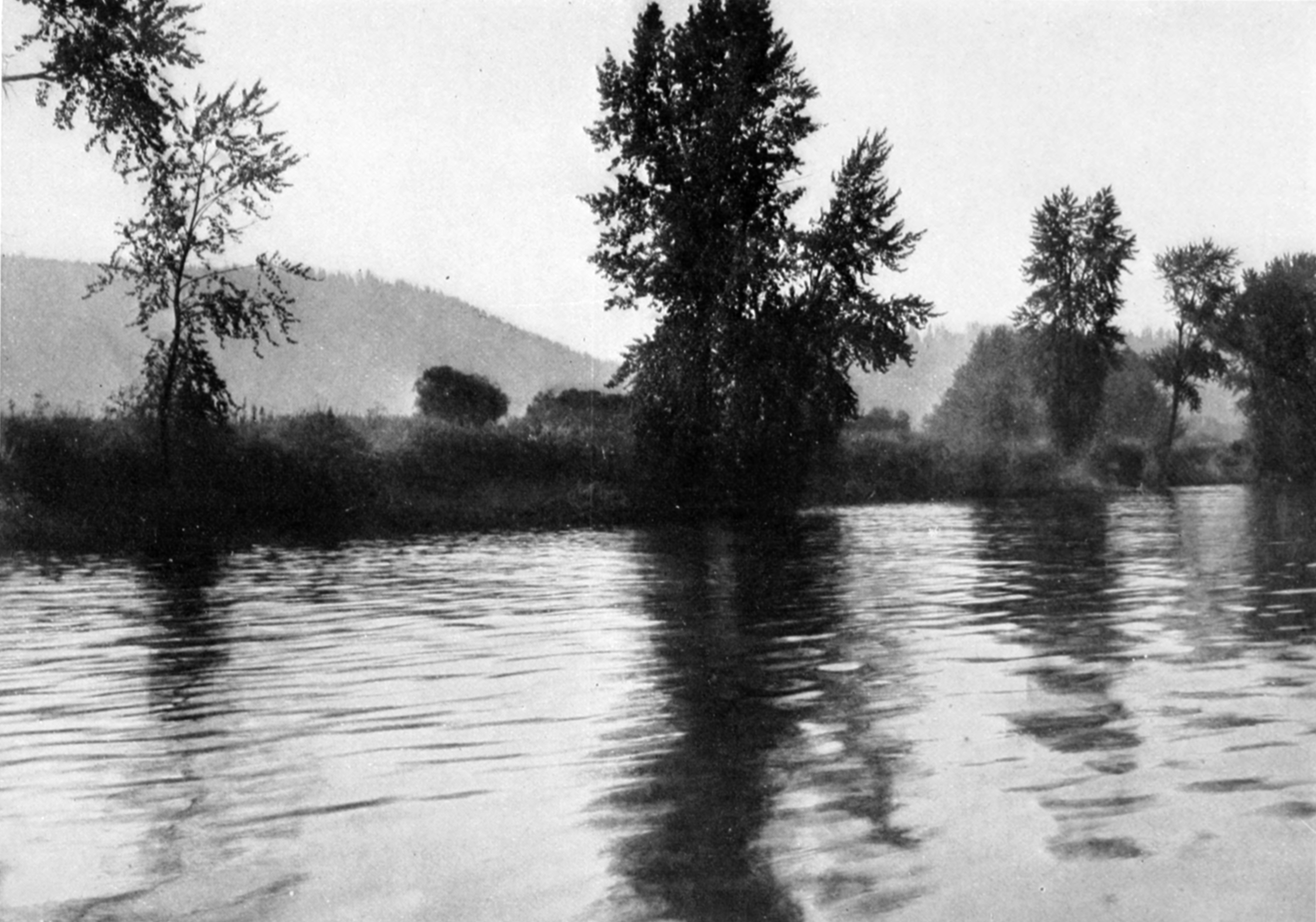 Image from The Columbia River: Its History, Its Myths, Its Scenery, Its Commerce